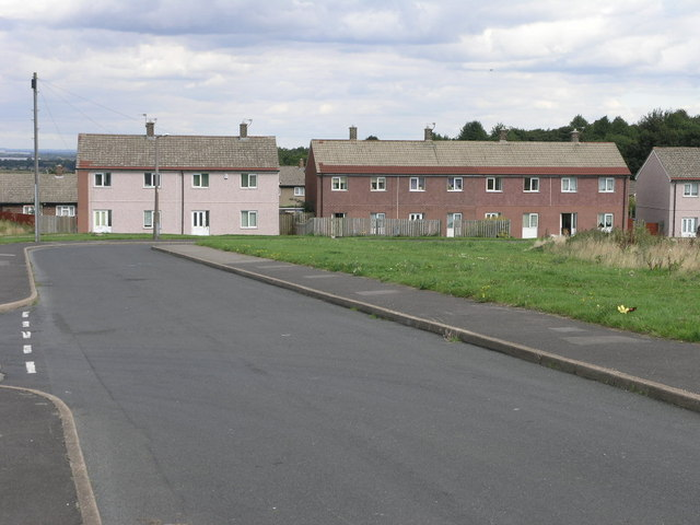 Miners Housing. These houses would have been built to accommodate the local coal miners from one of the many collieries that were once in this area.